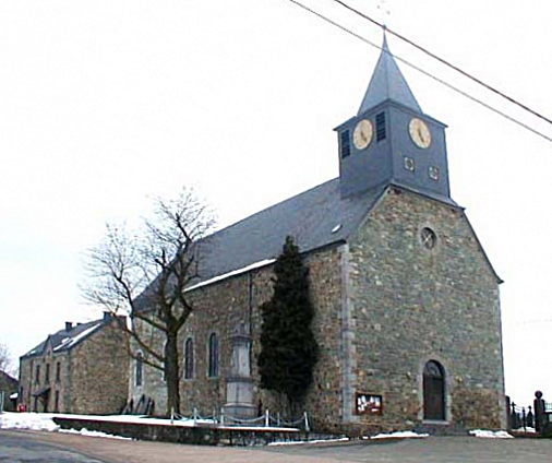 Church of Bras (Libramont) Walon: Eglijhe di Brå-dlé-Libråmont.